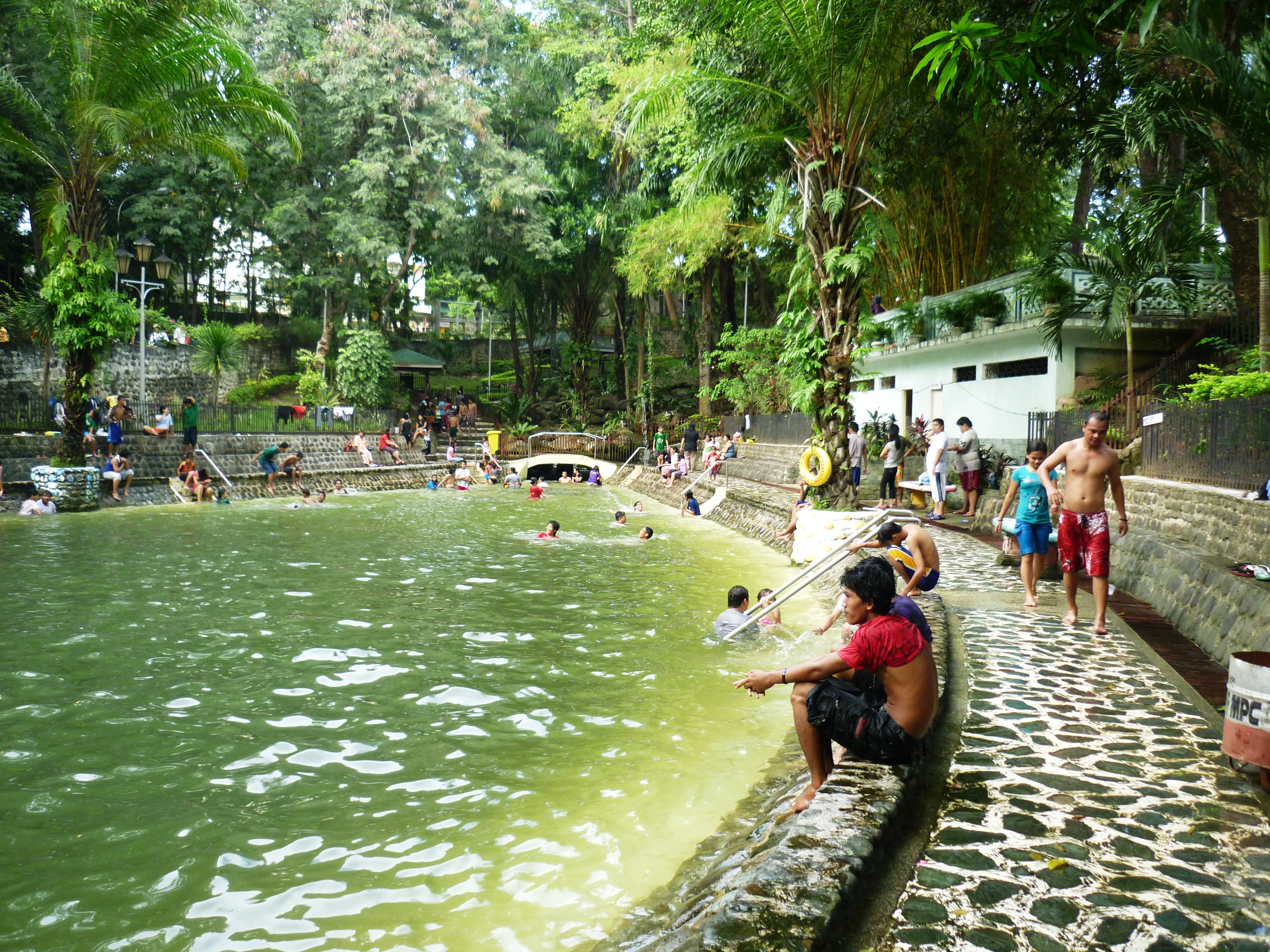 Pasonaca Main Pool Zamboanga City